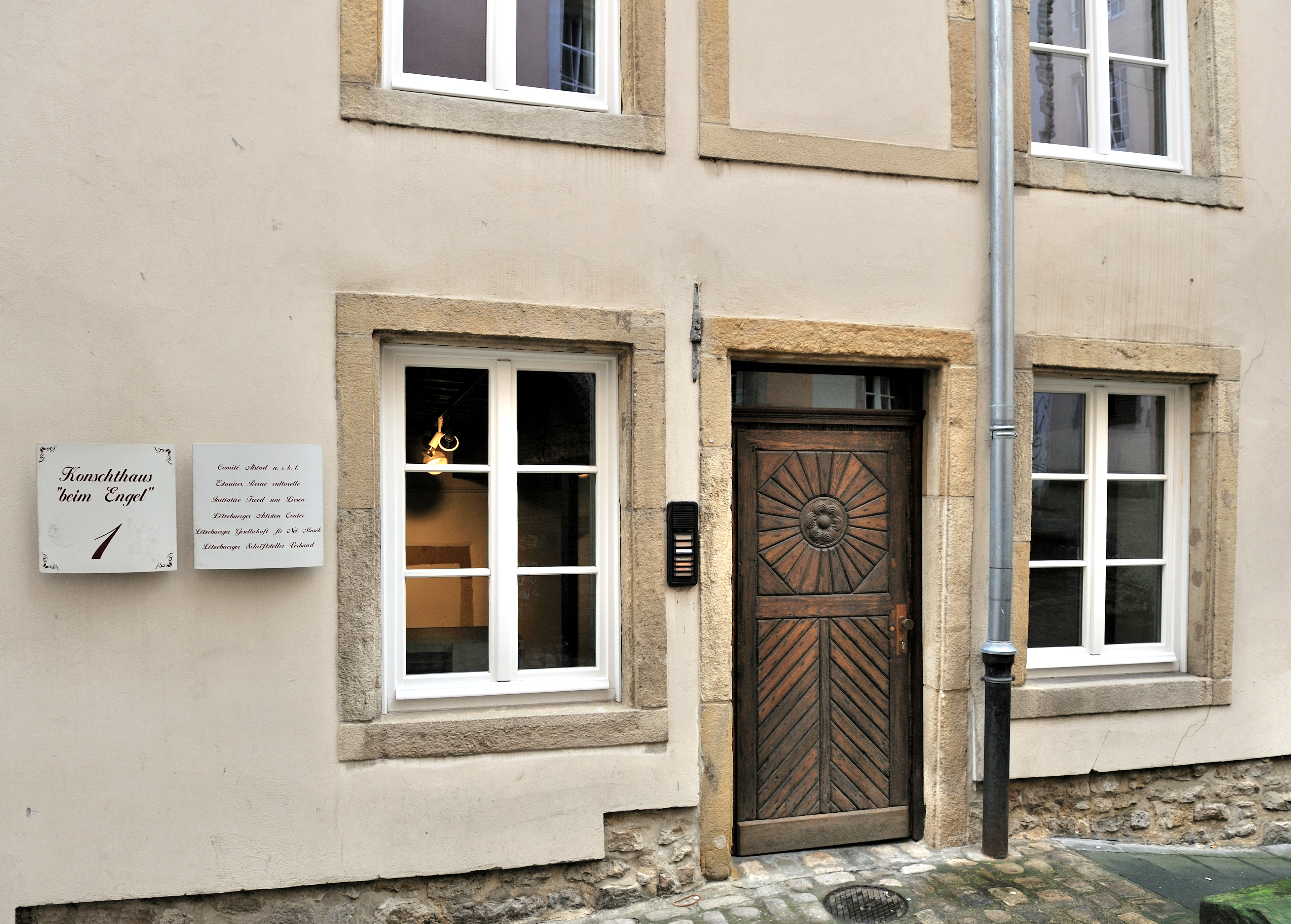 Luxembourg City, 1, rue de la Loge: lateral entrance of the so-called Konschthaus beim Engel.